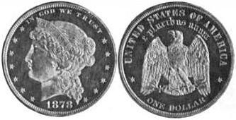 Photograph of a standard dollar pattern coin created by William Barber